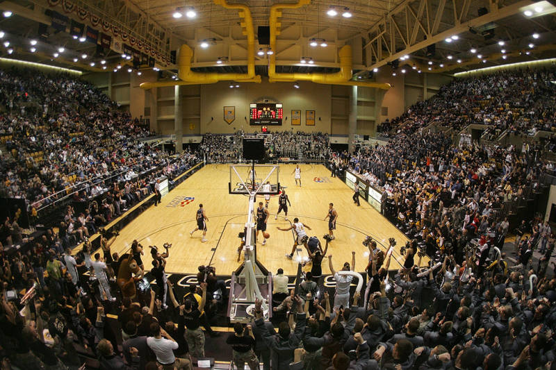 Army vs Navy Basketball 2010